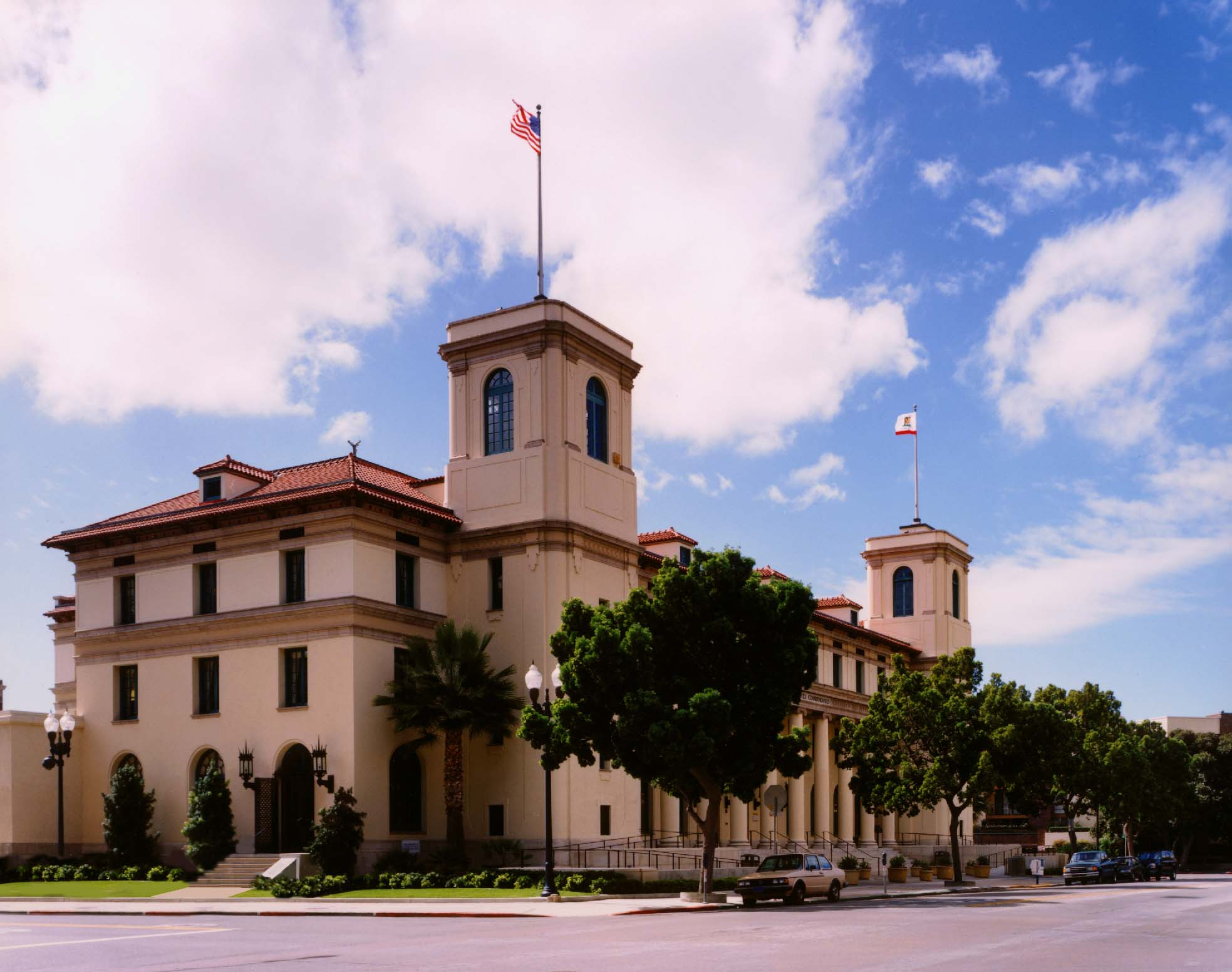 Jacob Weinberger United States Courthouse — San Diego, California. Built in 1913, on the National Register of Historic Places. taken June 2003